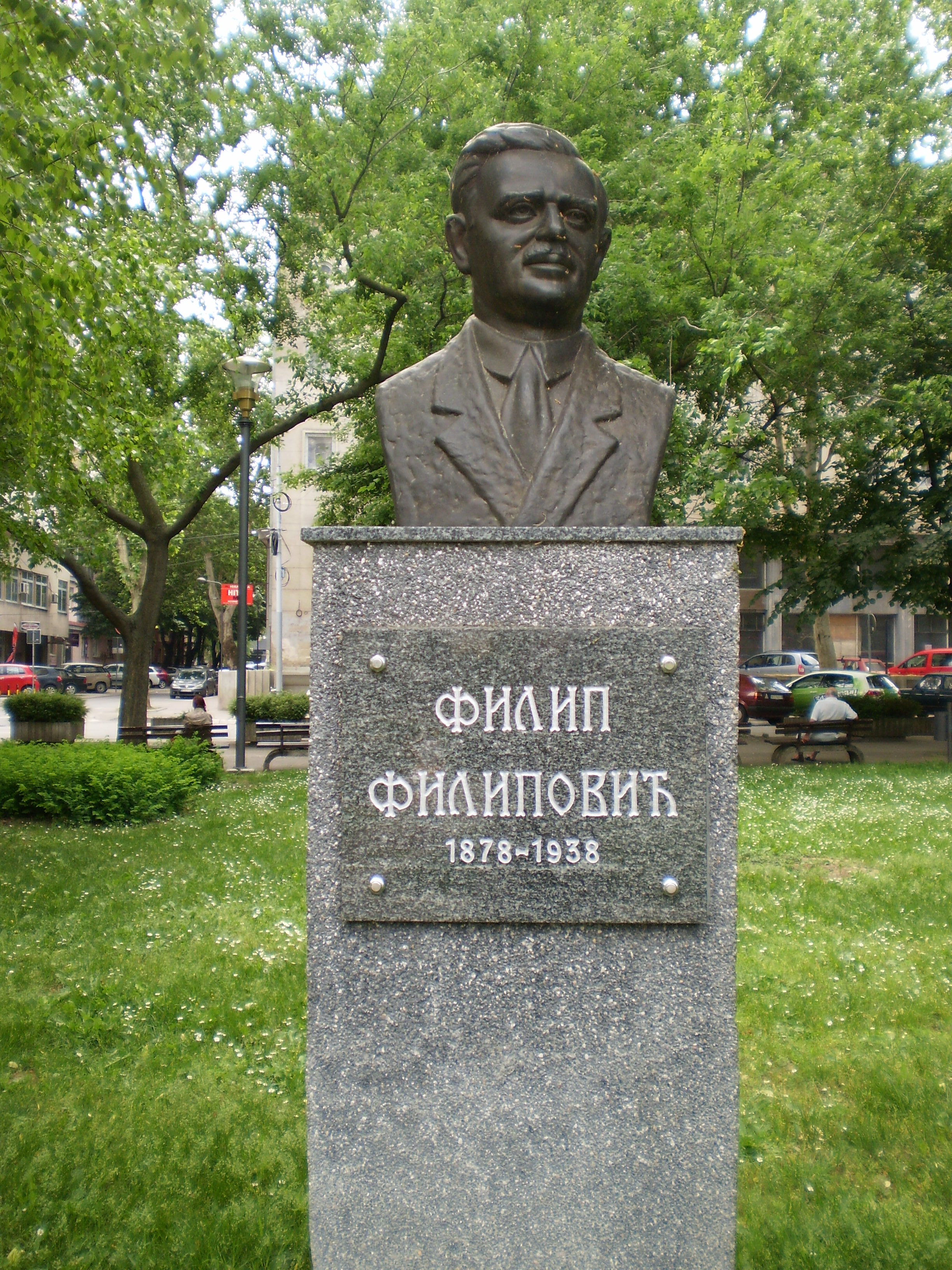 Filip Filipović (1878-1938)